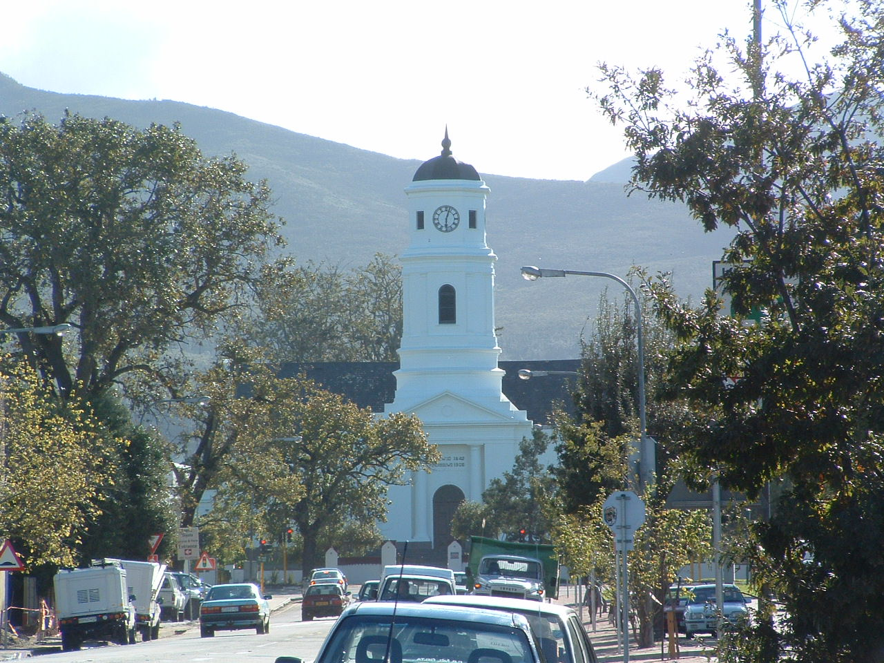 Dutch Reformed Church in George, South Africa